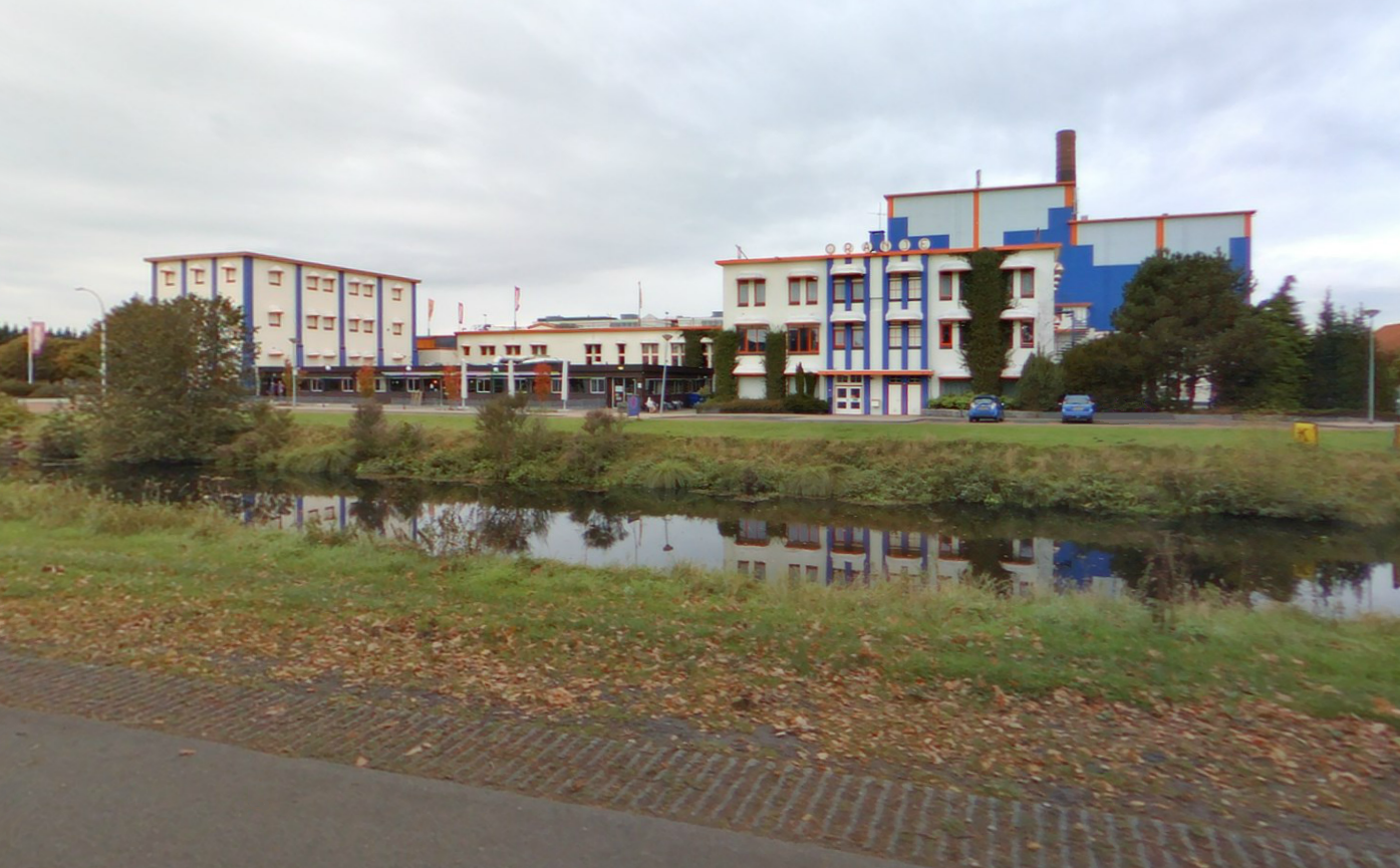 View of "Speelstad Oranje", an indoor playground in a former potato flour factory along the canal of Oranje in Drenthe.